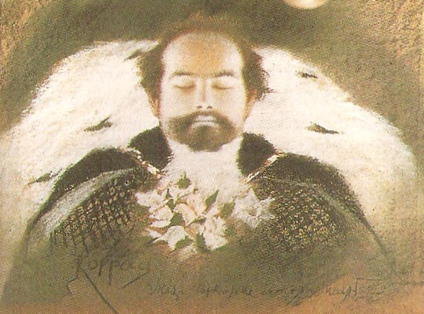 Ludwig II of Bavaria